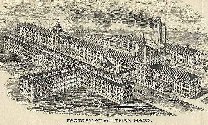 Commonwealth Shoe & Leather Company, Main Factory at Whitman Mass 1911